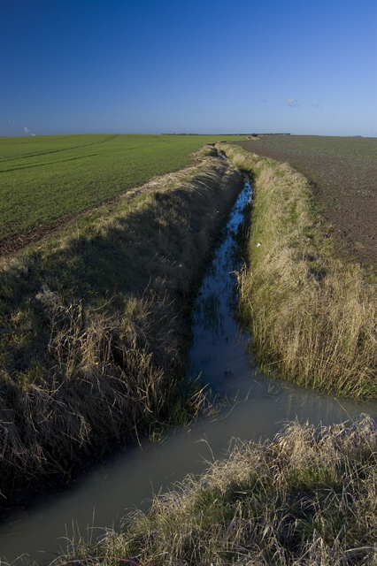 Land drains near Halsham, East Riding of Yorkshire, England.Confluence of two drains on the western side of North End Lane.